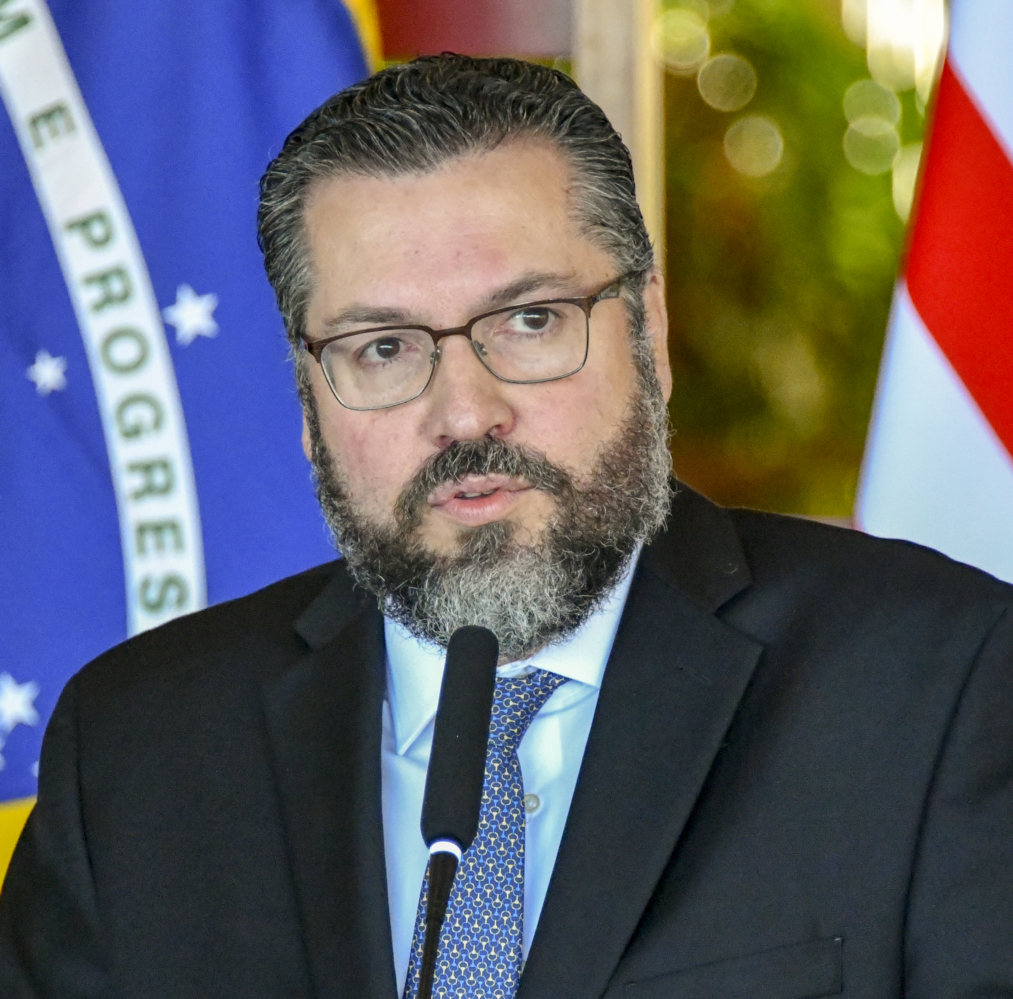 Brazilian Foreign Minister Ernesto Araujo speaks at a joint press availability with U.S. Secretary of State Michael R. Pompeo, in Brasilia, Brazil, January 2, 2019. [State Department photo/ Public Domain]